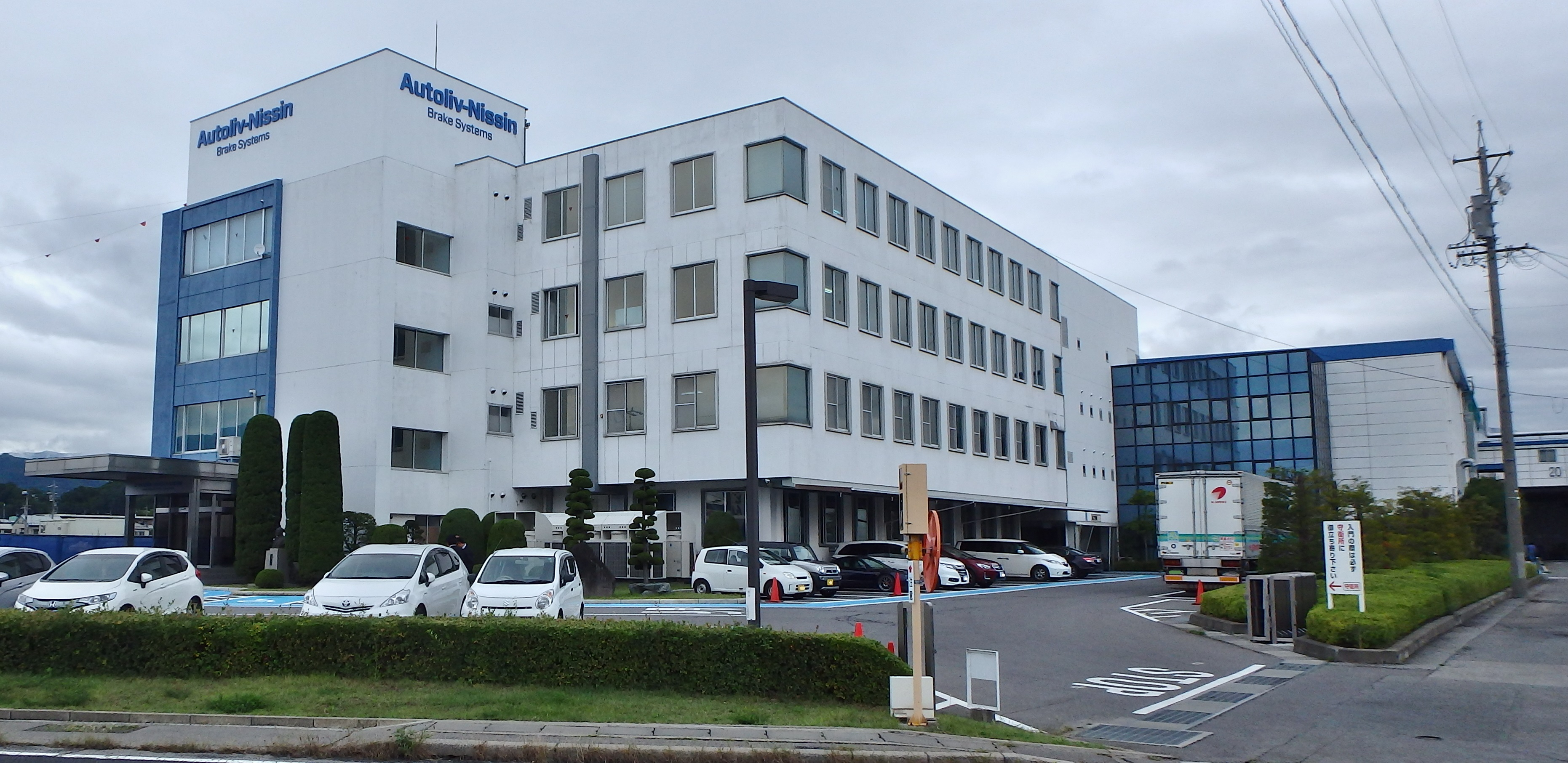 Headquarters of Nissin Kogyo Co., Ltd.,Nagano prefecture,Japan